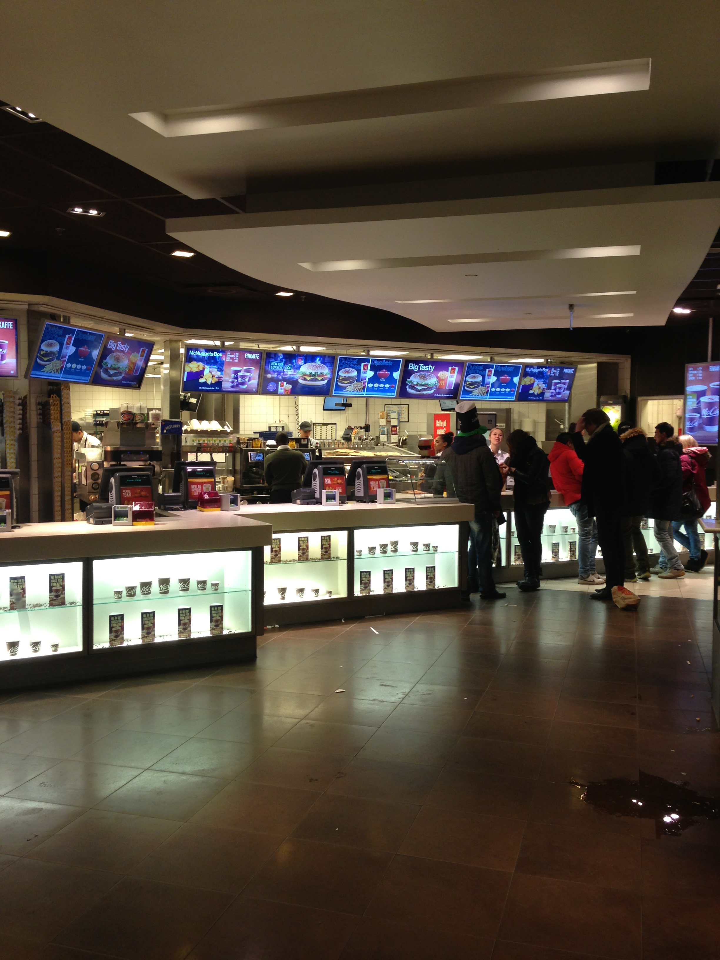 A McDonald's counter at night, Gothenburg, Sweden, 2013